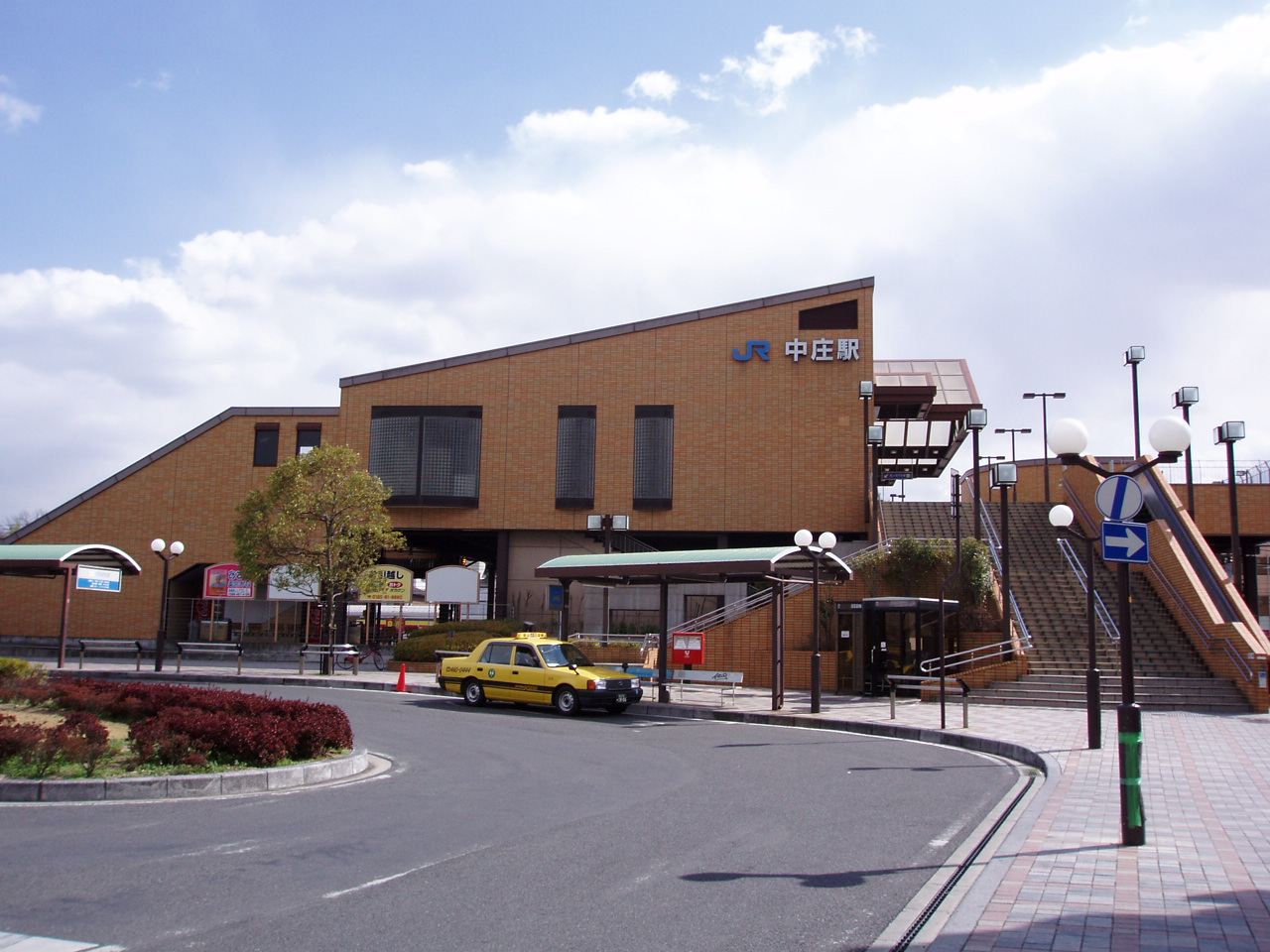 West Japan Railway Sanyo Main Line Nakasho Station Building North Gate 西日本旅客鉄道 山陽本線 中庄駅駅舎 北出口